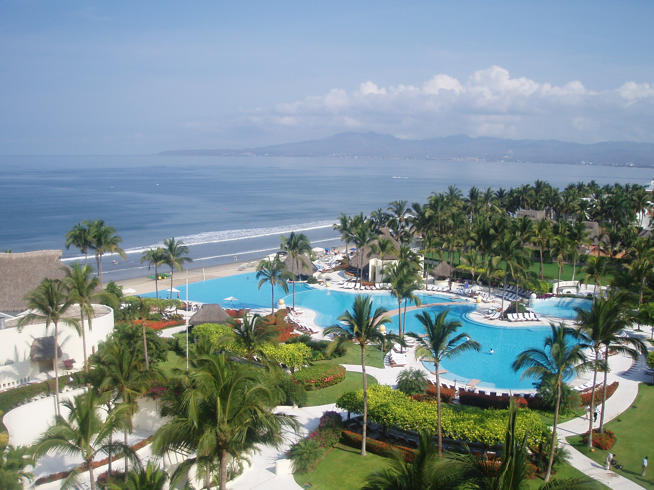 Scene of the Nuevo Vallarta beach.